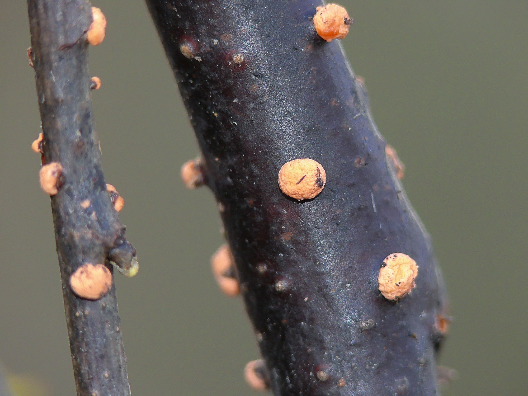 Coral Spot (Nectria cinnabarina)